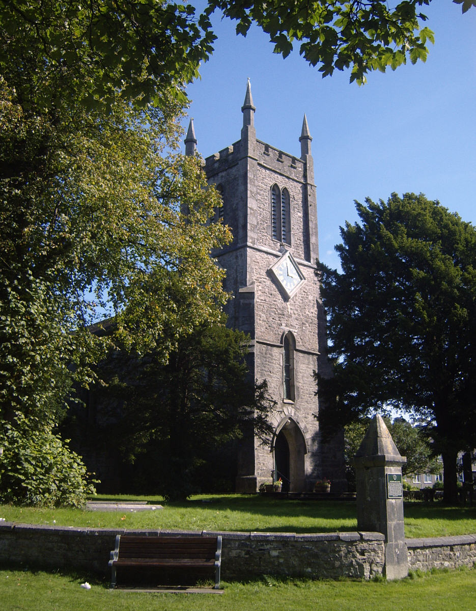 St Thomas's parish church, Milnthorpe, Cumbria (formerly Westmorland), seen from the northwest